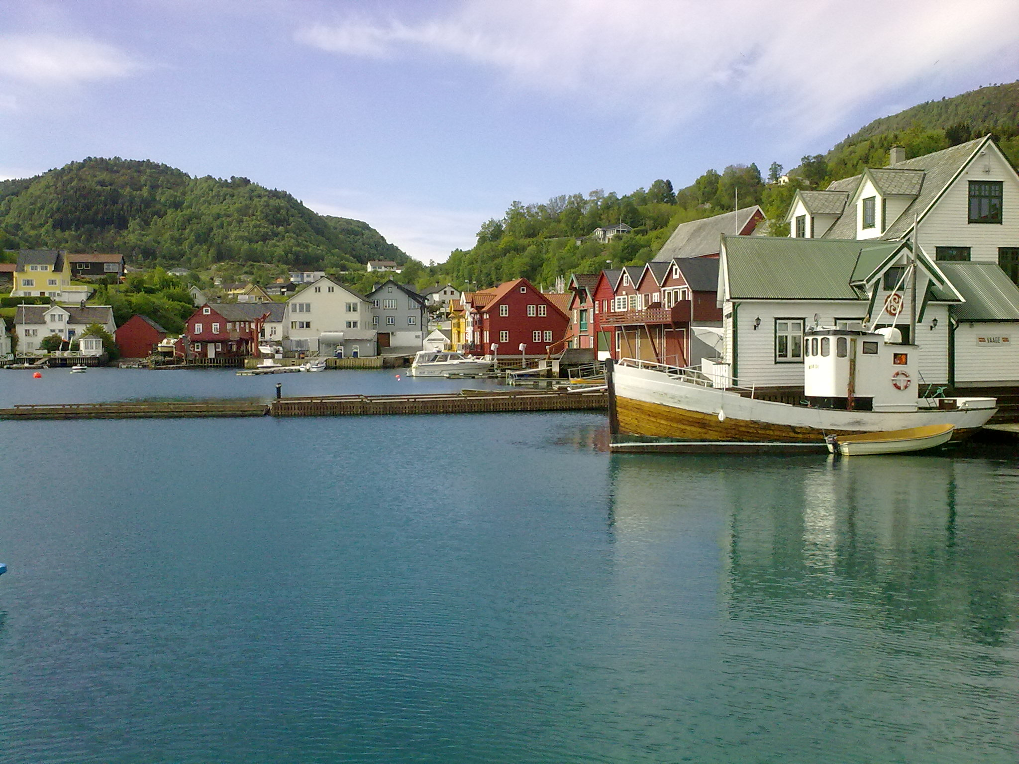 The harbour in Våge, located in the municipality of Tysnes in Hordaland, Norway.